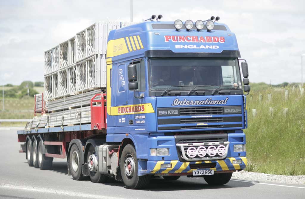 punchard